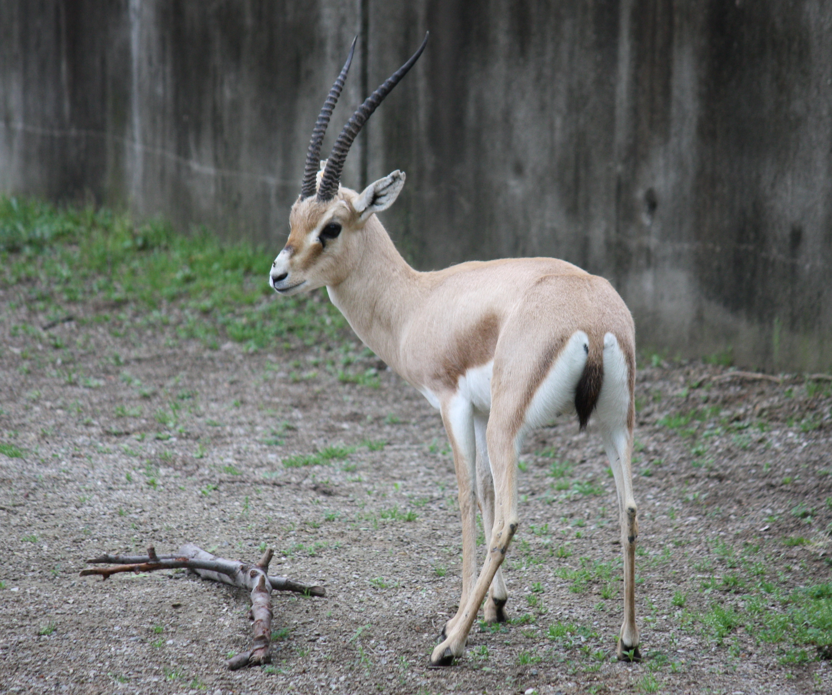 Slender-horned Gazelle Gazella leptoceros at Cincinnati Zoo